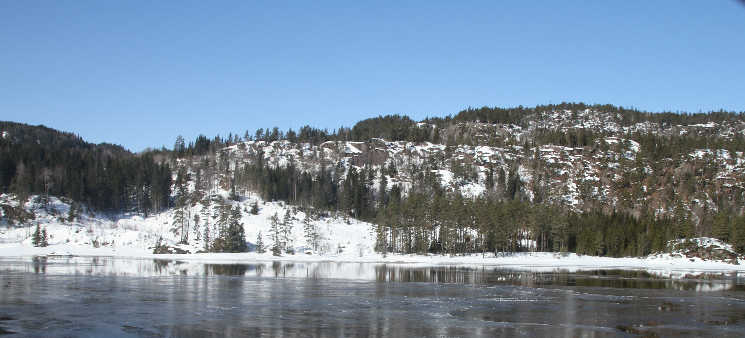 Image from along the Highway 41 and the Tovdalselva river, in Birkenes municipality (north of the setlement Birkenes), Aust-Agder county, Norway.